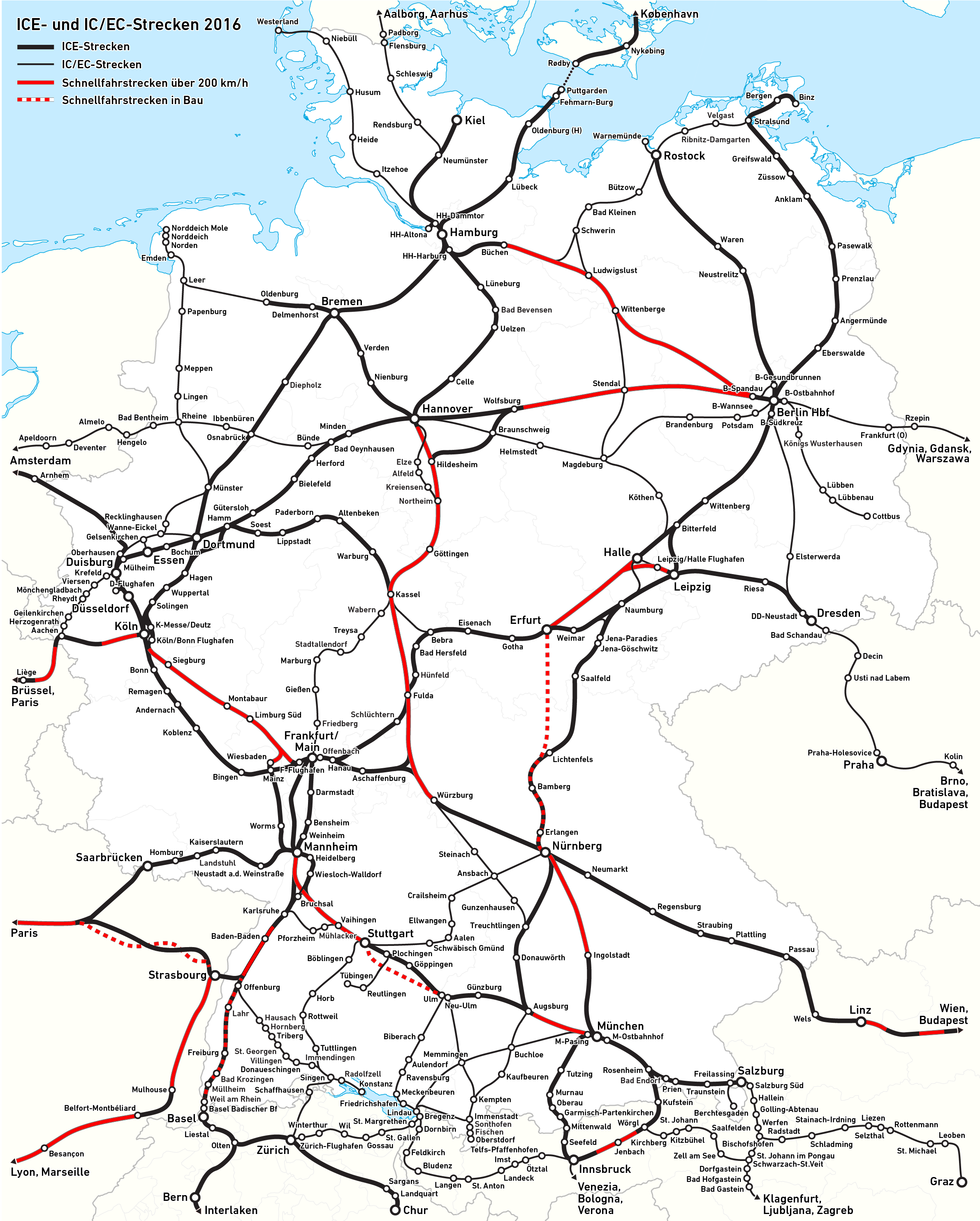 Map of the ICE and IC/EC railway network of Germany This map image could be re-created using vector graphics as an SVG file. This has several advantages; see Commons:Media for cleanup for more information. If an SVG form of this image is available, please upload it and afterwards replace this template with vector version available|new image name . It is recommended to name the SVG file "Karte IC-, EC- und ICE-Strecken Deutschland.svg" - then the template Vector version available (or Vva) does not need the new image name parameter.